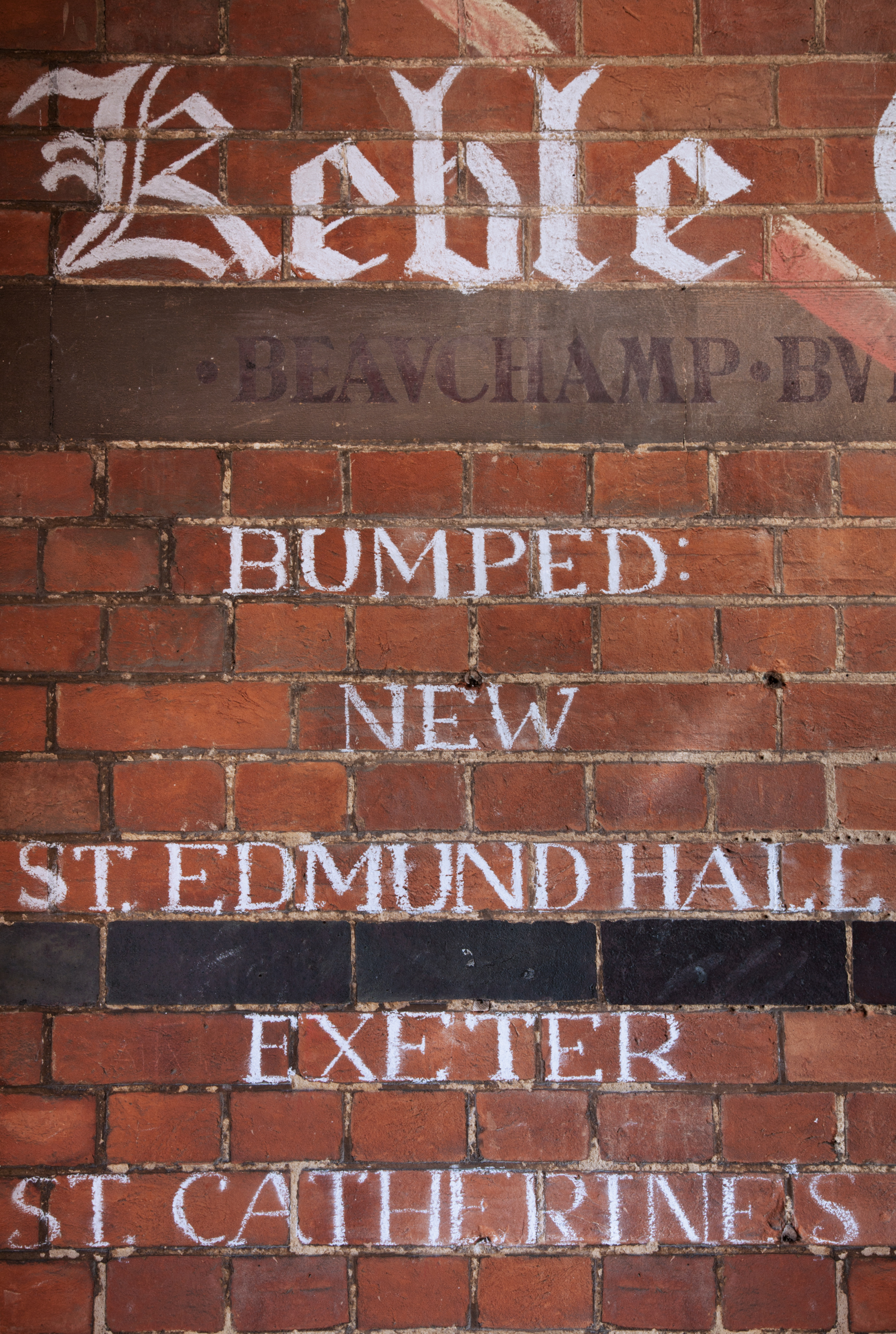 Boat race results in the walls of Keble College, Oxford, UK